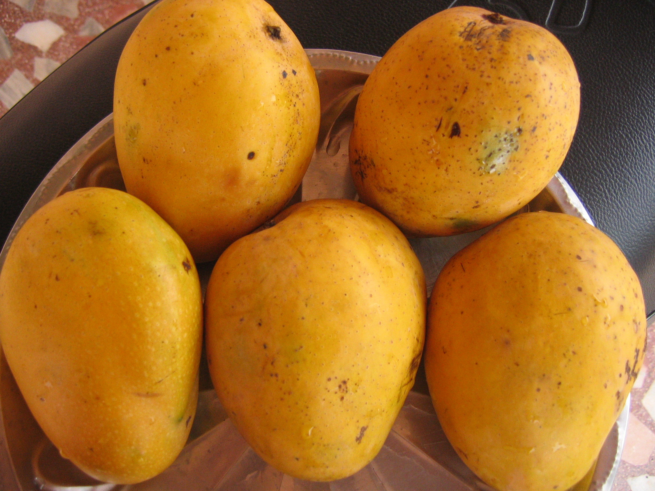 The Banganpalli mango is a type of mango available in India during the later summer season (mid May to June). It is very famous for its sweetness. These are larger in size, could weigh around 2 Lbs each. It is generally cut into pieces, than squeezed for its juice. This picture is taken at Guntur, India.